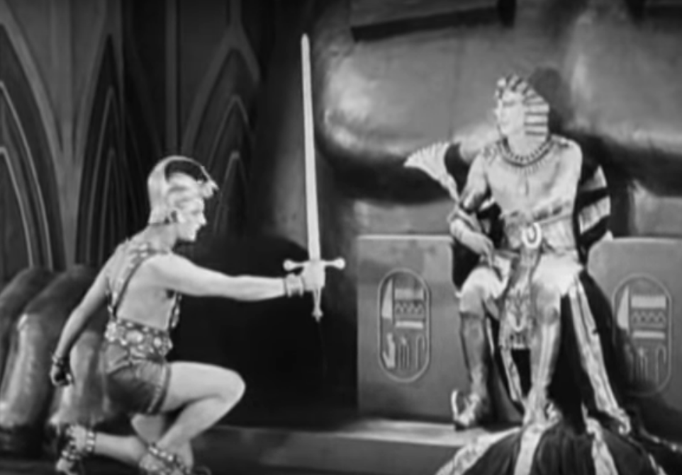 A frame from the 1923 film The Ten Commandments, showing actors Charles De Roche and Paul Swan